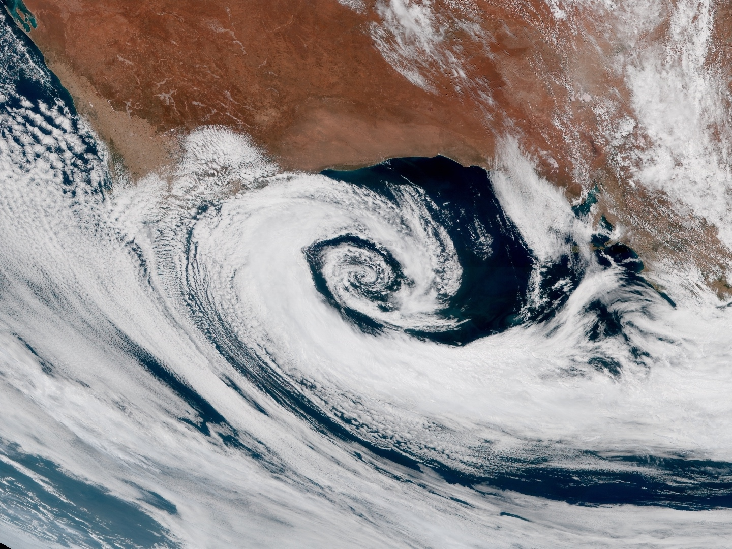 A strong extratropical cyclone south of Australia on 28 December 2016.